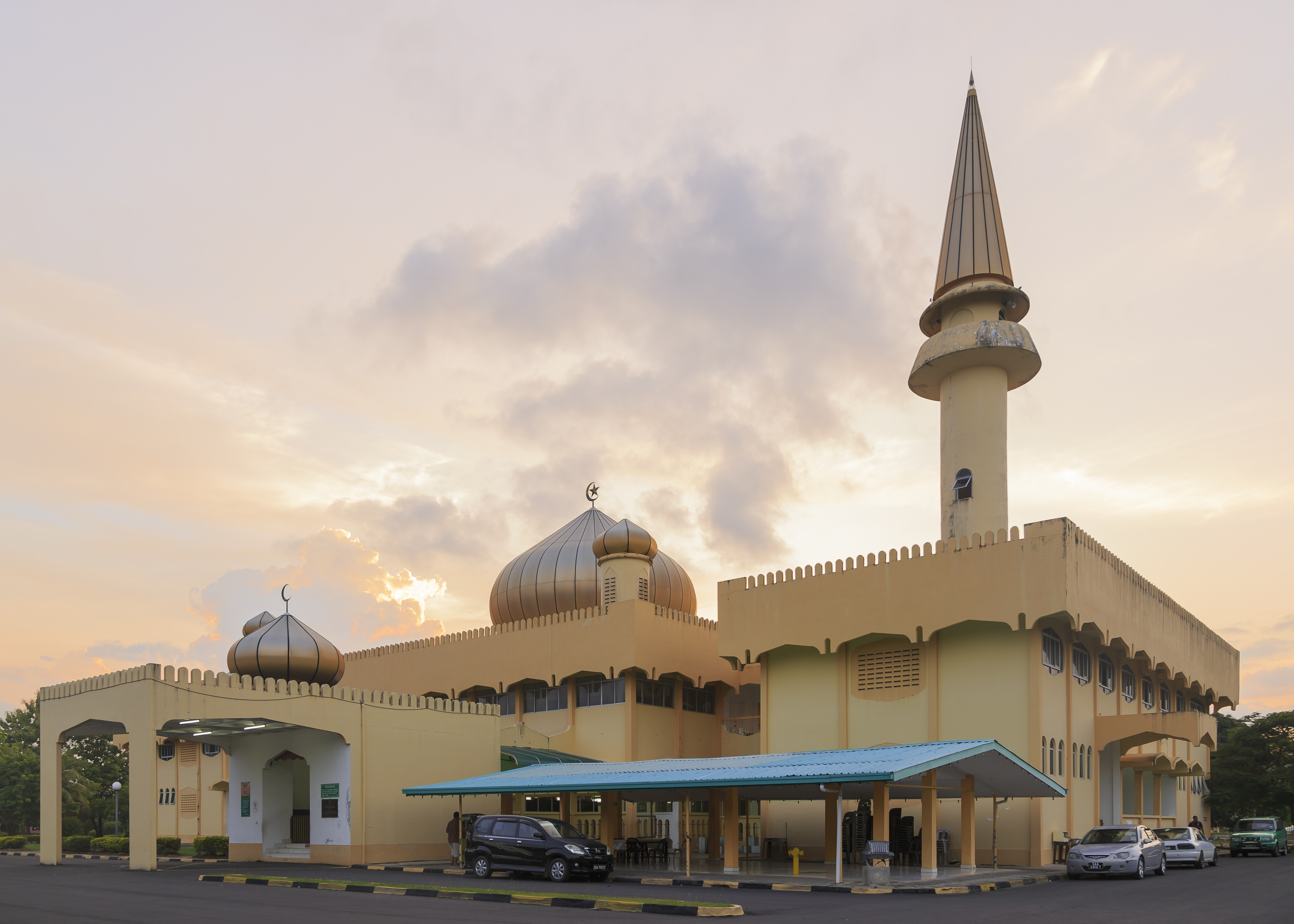 Kudat, Sabah: Asy-Syakirin Mosque, illuminated by the last light of the bornean sunset.